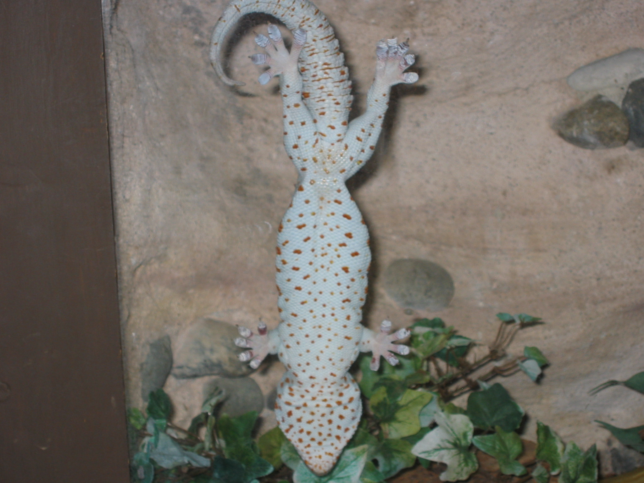 A Tokay gecko (Gecko gekko) showing its climbing ability at Greater Vancouver Zoo.